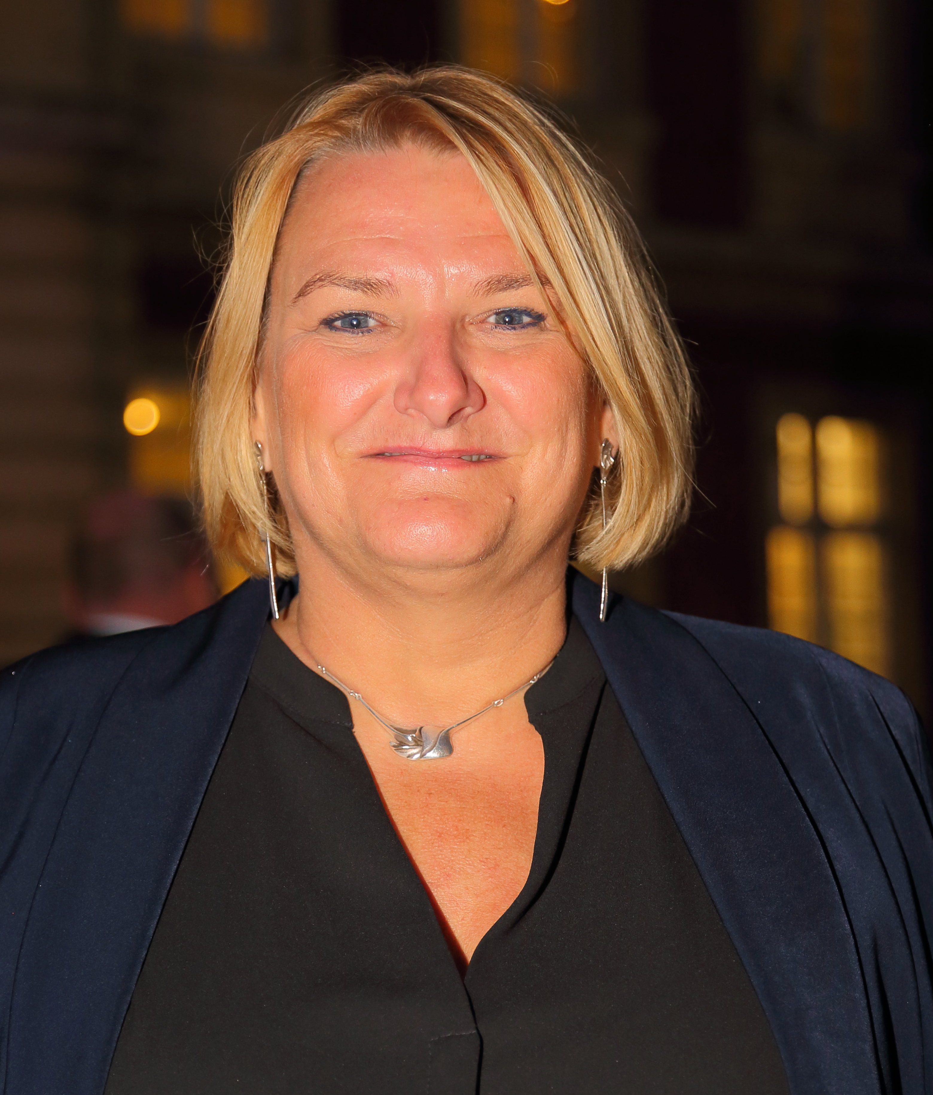 German geneticist Professor Dr. Monika Stoll. She serves as a Prorector of the University of Münster (Westfälische Wilhelms-Universität Münster) in Münster, North Rhine-Westphalia, Germany.